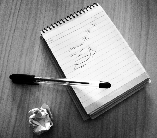 Boredom